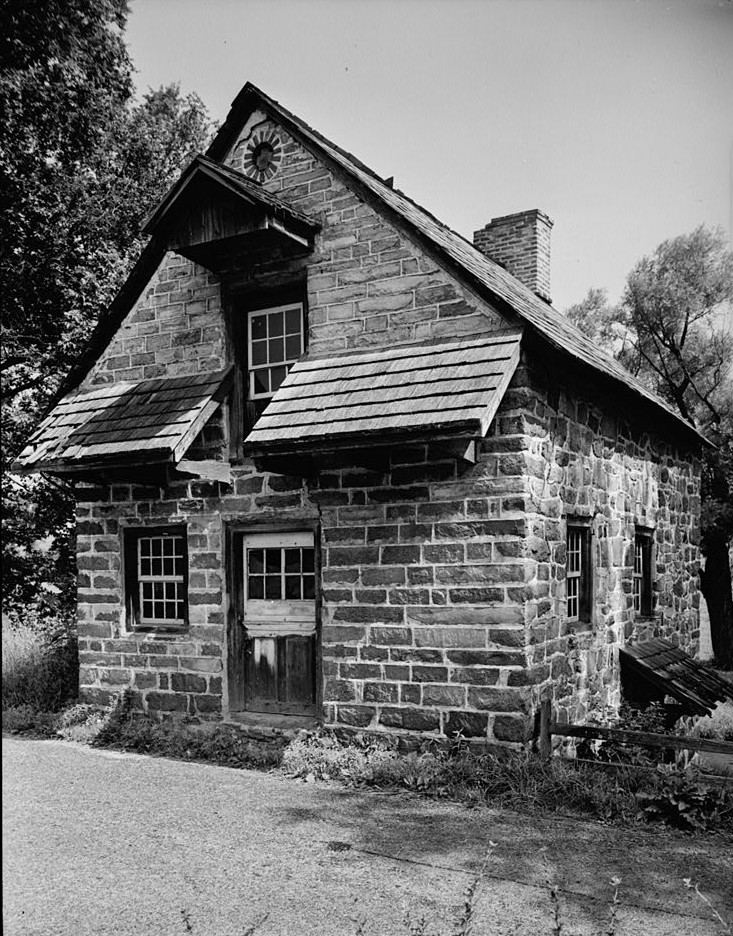 De Turck House, Oley, Pennsylvania, Berks County, historic German Colonial Style Stone House